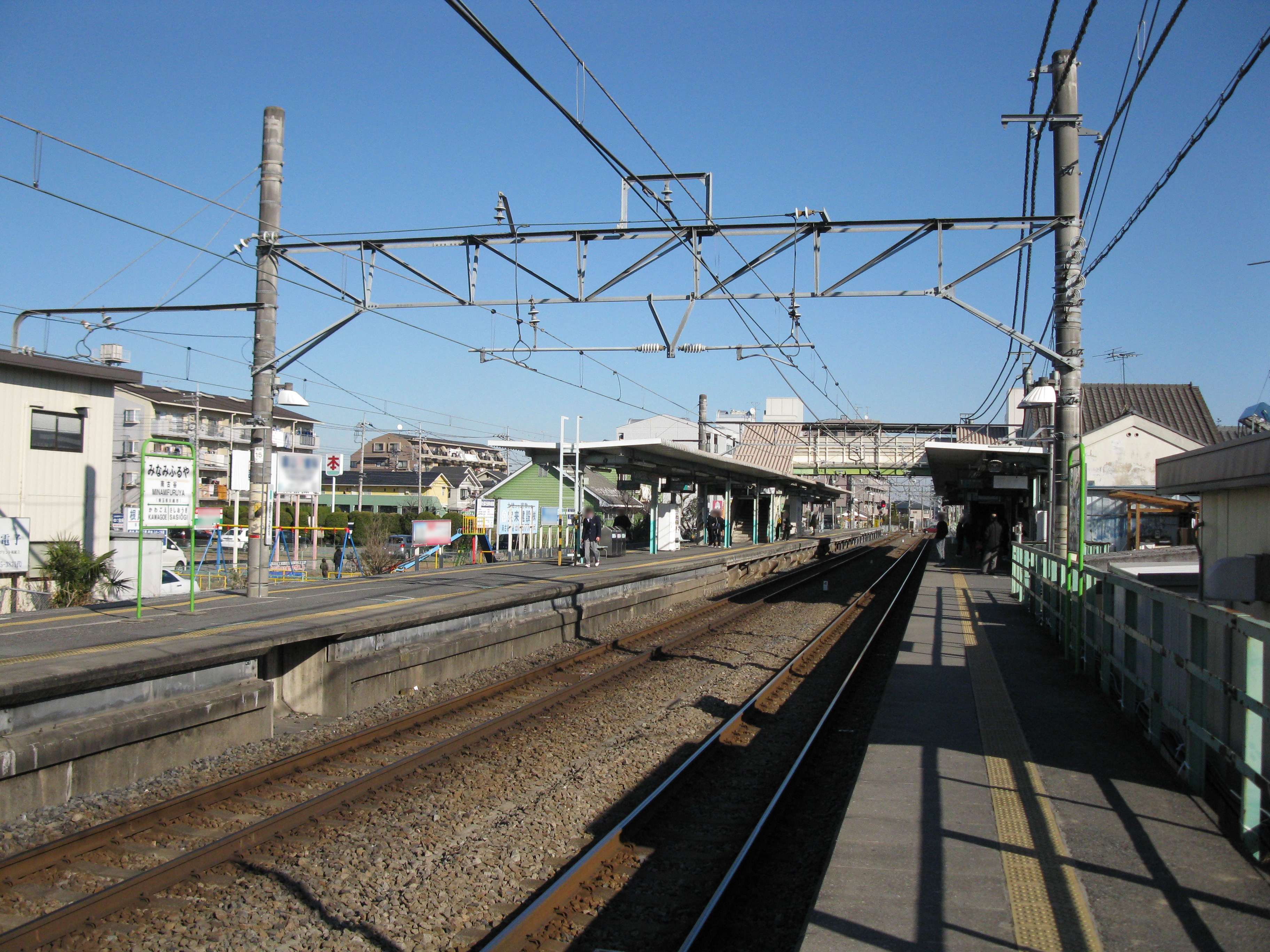 Minami-Furuya Station platform (East Japan Railway Kawagoe Line)